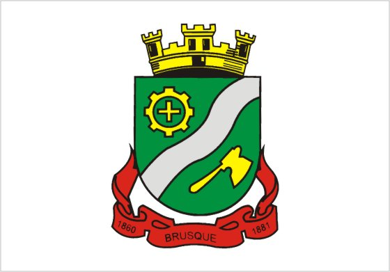 Flag of the municipality of Brusque, SC, Brazil